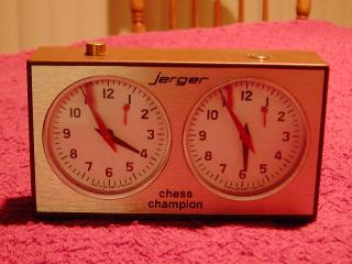 The three isotopes of hydrogen.